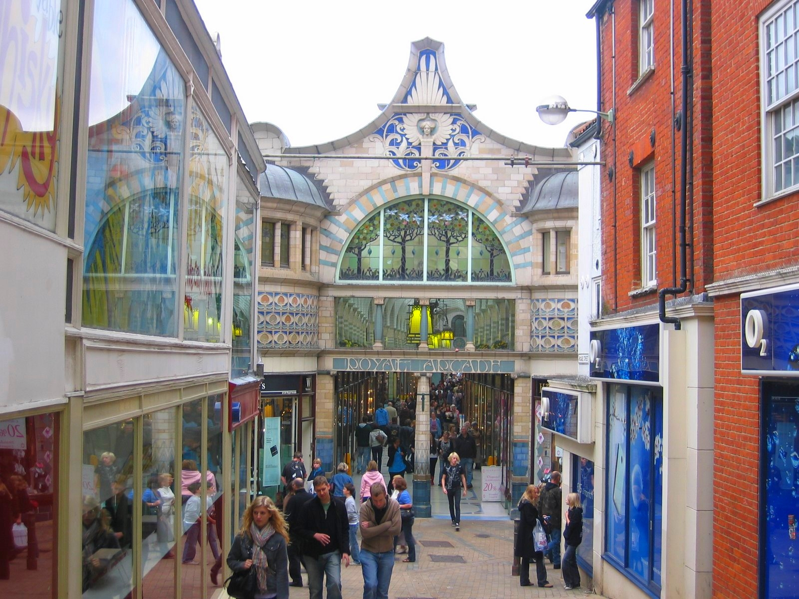 Art Nouveau Royal Arcade in Norwich, United Kingdom